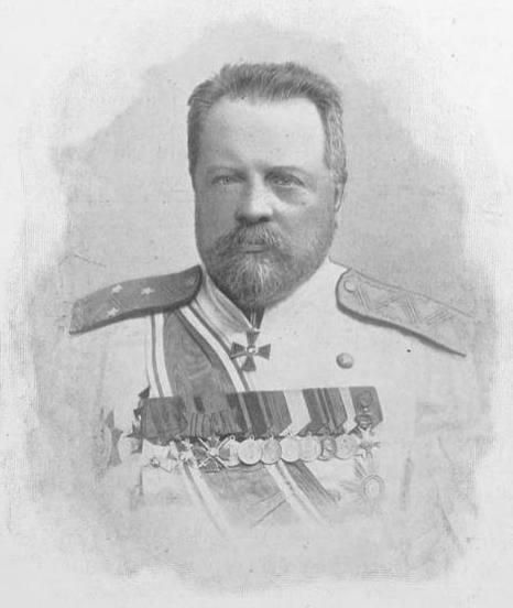 Tserpitsky, Konstantin Vikentyevich